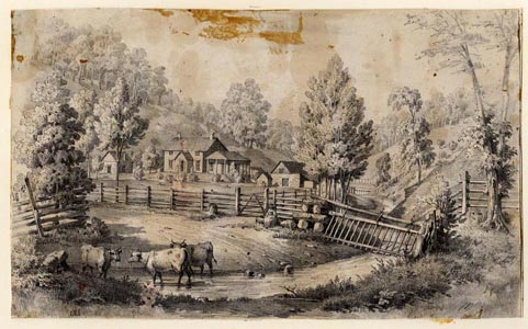 Debar House, built 1852 at the mouth of Carder's camp run of Cove Creek. Headquarters of the St. Clara Colony, the first successful settlement made by immigrant Germans within the boundary of West Virginia. Sketch by Joseph H. Diss Debar.